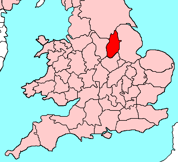 Nottinghamshire